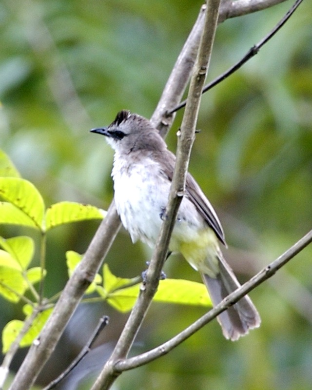 Yellow-vented Bulbul Pycnonotus goiavier gourdini. Location: Borneo Orangutan Survival, Samboja, East Kalimantan, Indonesia. Habitat found in area under reforestation following burning to clear land. Now being used for an Orang Utan release program.